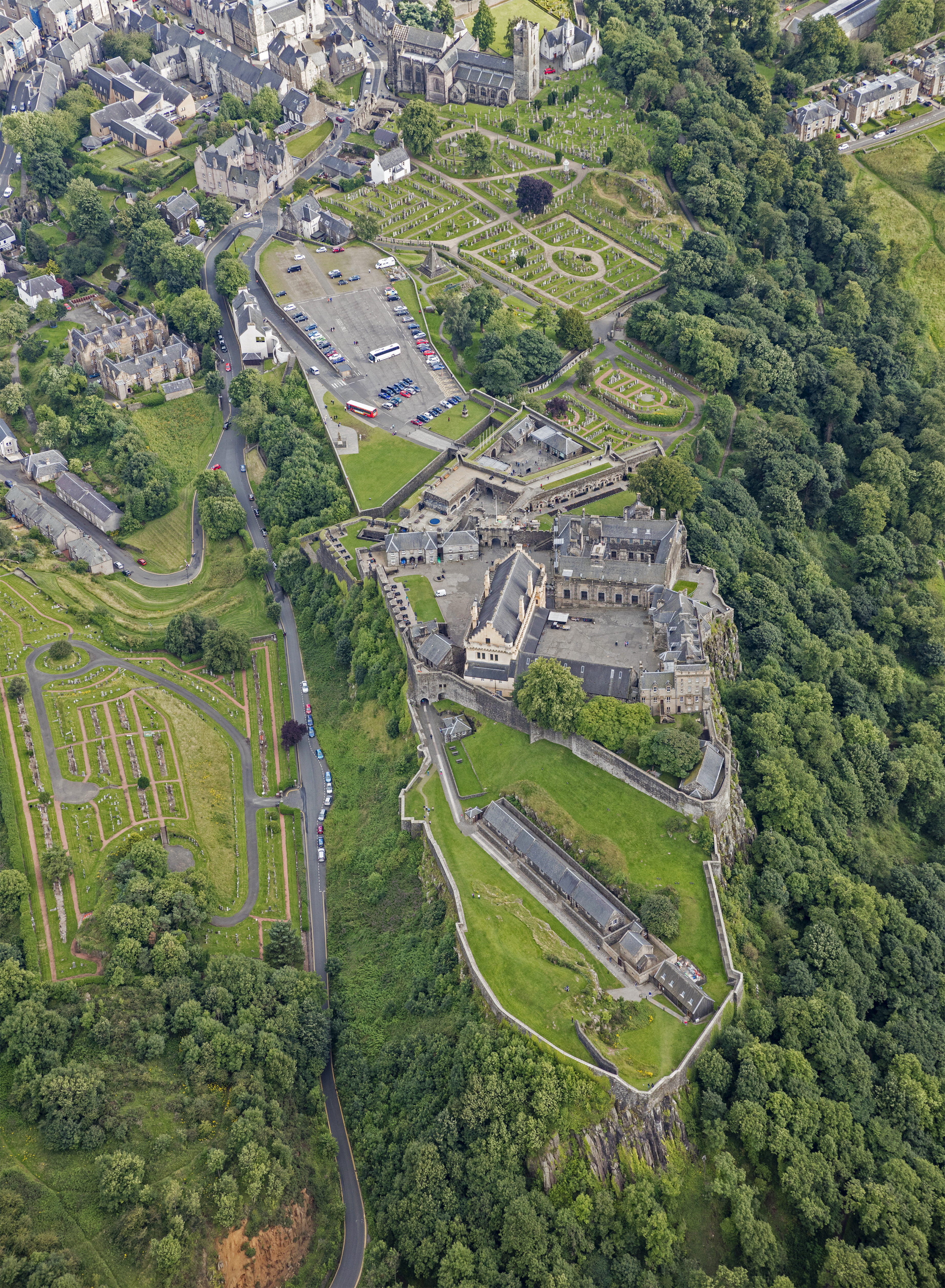 Aerial view of Stirling Castle Wikidata has entry Q756268 with data related to this item.